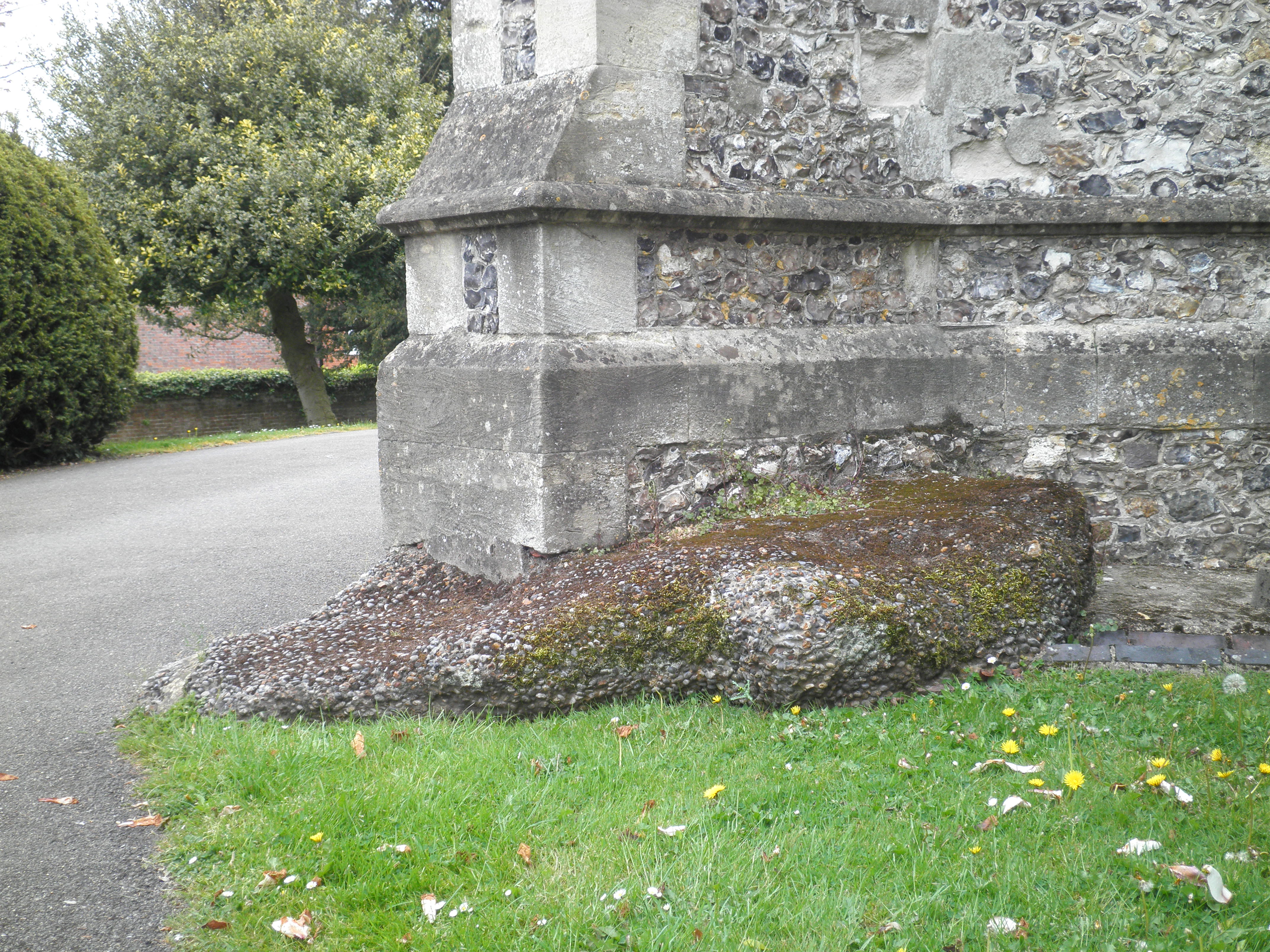 Remains of a stone circle of pudding stone incorporated into the structure of St Mary's Church, Chesham, Buckinghamshire